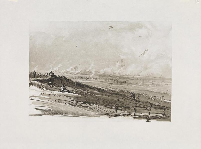 War Drawings by Muirhead Bone- the Battle of the Somme